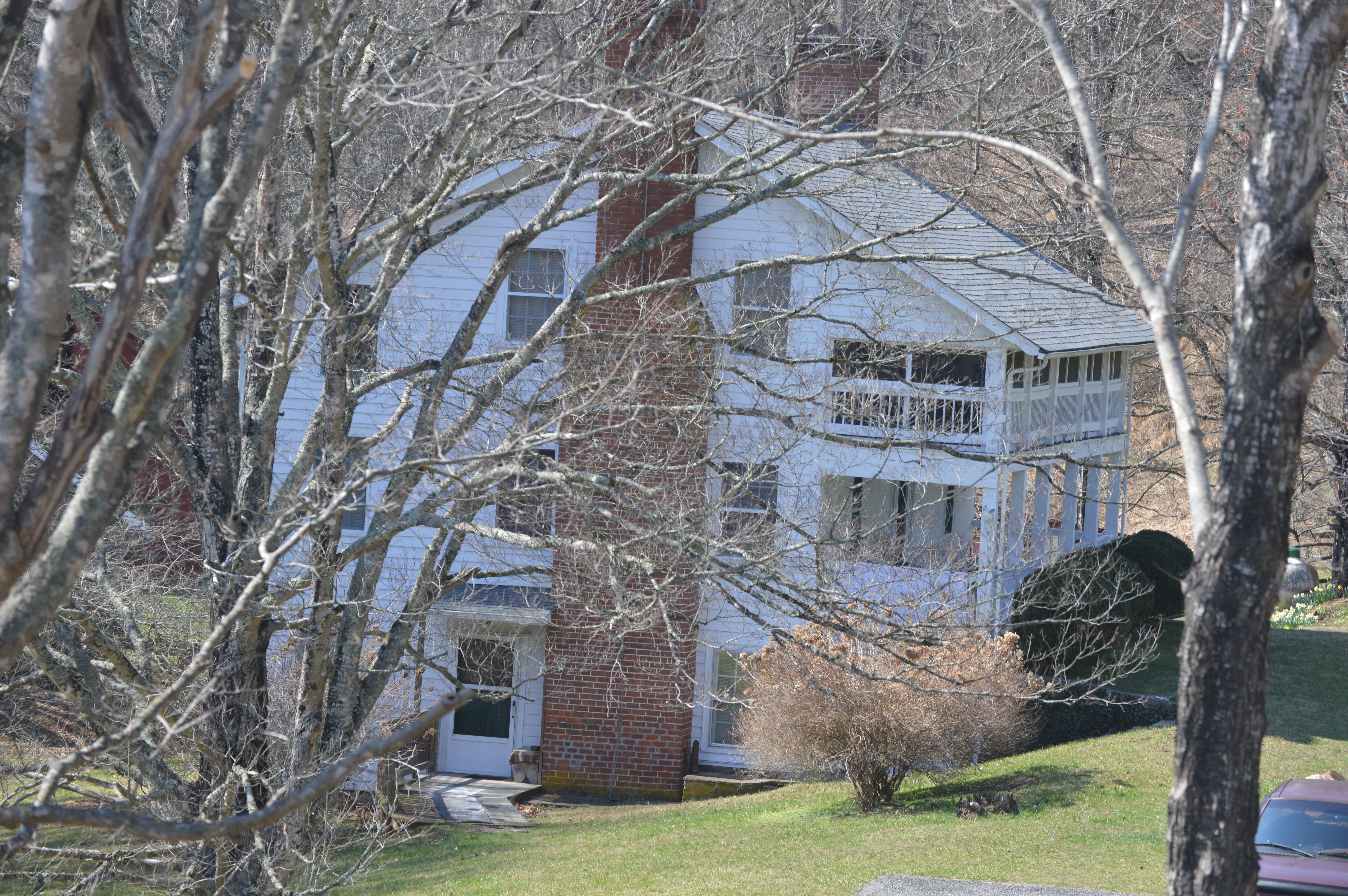 Through-the-trees view of the Brookside Farmhouse, located on U.S. Route 58 west of Independence in Grayson County, Virginia, United States. Built in 1877, this house, together with the rest of the farmstead, is listed on the National Register of Historic Places.